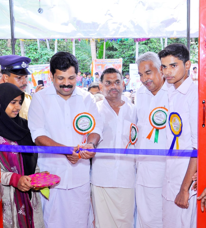 In the presence of the Hon'ble Kerala Chief Minister Shri.Oommen Chandy and Youth Congress Assembly General Secretary Favad Pathoor,the triveni super market has been given to the natives of kodinhi by the Hon'ble Tourism Minister Shri.AP Anilkumar